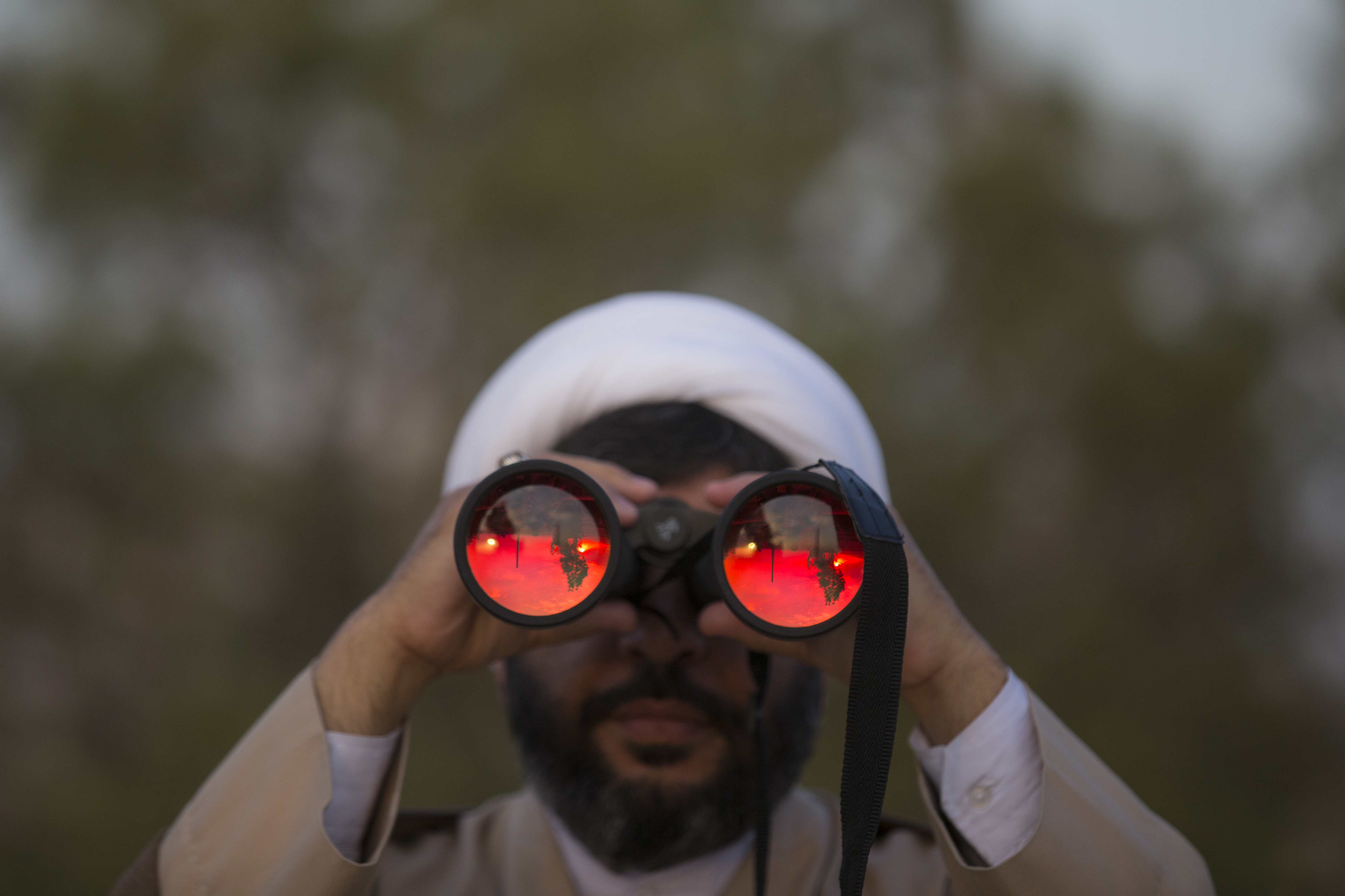 Astronomy (from Greek: ἀστρονομία) is a natural science that studies celestial objects and phenomena. Žemaitėška: Astruonuomėjė (gr. astron - žvaiždie, nomos - diesnės) - muokslos, apėmontės reiškėniū, esontiū ož Žemės ė anuos atmuosperas, stebiejėma ė aiškėnėma. Zeêuws: De astronomie of staerrekunde ou zen eihen bezig mie 't bekieken en verklaeren van diengen buut'n de atmosfeêr. ייִדיש: אַסטראָנאָמיע איז די וויסנשאפט וואס באהאנדלט איבער די הימלען באַװעגונגען, און אַלעס װעגן אַנטװיקלונגען אַרום אונדזער װעלט ו.צ.ב די זון מיט דער לבֿנה, שטערן און אַלע הימל געשעענישן. Xitsonga: Dyondzo ya tinyeleti (kusukela eka Xigriki: αστρονομία ) i sayensi leyi lavisisaka hi ta tinyeleti ta tilo na swilo leswinge matilweni. Wolof: Saytubiddiw mooy xam-xam biy xool aka saytu biddiw yi, di jéem a faramface ak a leeral seen melokaan ci jëmm ak ci simi, seenug magg ak seen cosaan. Ido: فلکیات قُدرتی علوم کی ایک ایسی مخصُوص شاخ ہے جس میں اجرامِ فلکی (مثلاً، چاند، سیارے، ستارے، سحابیے، کہکشاں، وغیرہ) اور زمینی کرۂ ہوا کے باہر روُنما ہونے والے واقعات کا مشاہدہ کیا جاتا ہے۔ اِس میں آسمان پر نظر آنے والے اجسام کے آغاز ، ارتقاء اور طبعی و کیمیائی خصوصیات کا مطالعہ بھی کیا جاتا ہے۔ فلکیات کے عالم کو فلکیاتدان کہا جاتا ہے۔ جہاں فلکیات محض اجرامِ فلکی اور دیگر آسمانی اجسام پر غور کرتی ہے، وہاں پوری کائنات کے سالِم علم کو علم الکائنات کہتے ہیں۔ Winaray : It Astronomiya[1] (Griyego: αστρονομία = άστρον + νόμος, astronomia = astron + nomos, kon ha literal, "balaod han mga bituon") amo an siyensya hit fenomena ha kalangitan nga natikang ha gawas han atmosferya han Kalibutan. Walon: L’ astronomeye est l’ syince di l’ observacion des asses, sayant di dner ene esplicåcion so leu skepiaedje, leu manire di candjî, leus prôpietés fizikes et tchimikes.